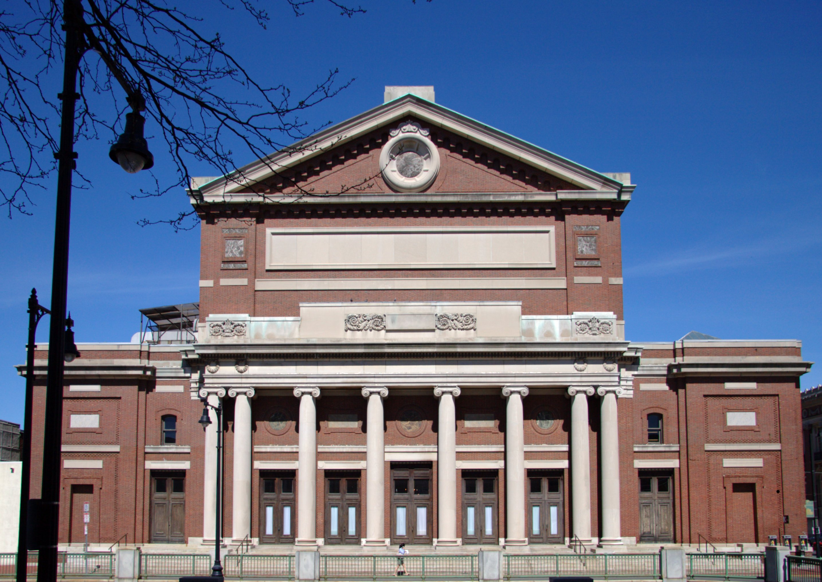 View from the south of Symphony Hall in Boston, MA (USA) in the morning sun. Equipment: Canon EOS 30D with Canon EF-S17-85mm f/4-5.6 IS USM; 1/1600 at f/4.0, ISO 100. Post-processing in GIMP.